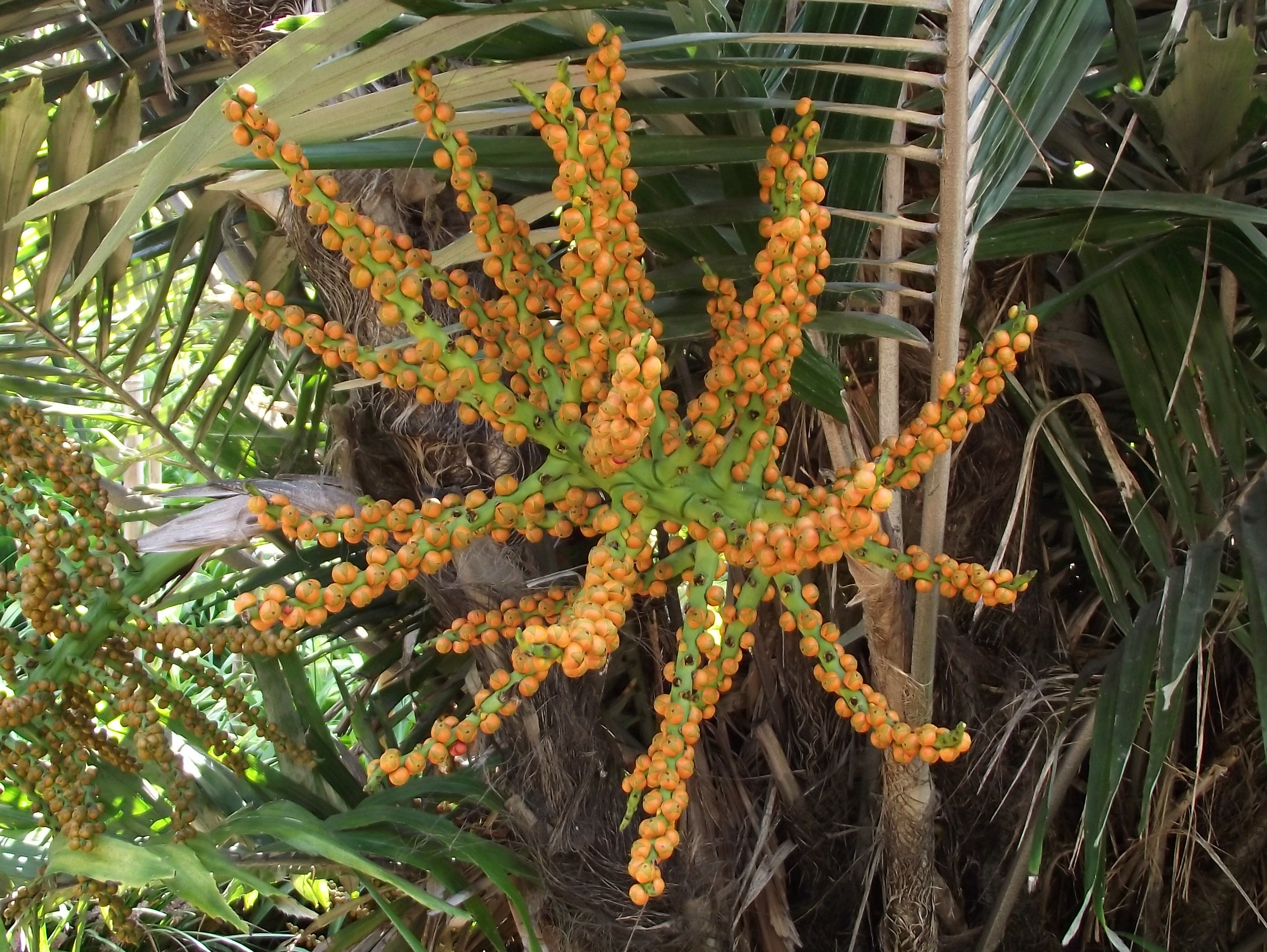 Arenga engleri at San Diego Botanic Garden, Encinitas, California, USA